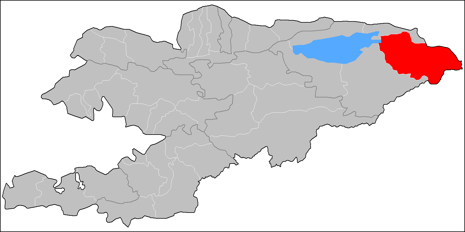 Ak-Suu raion in Kyrgyzstan. Based on Image:Kyrgyzstan raions.png